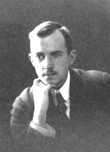 Photograph of the Finnish artist Matti Warén (1891–1955).